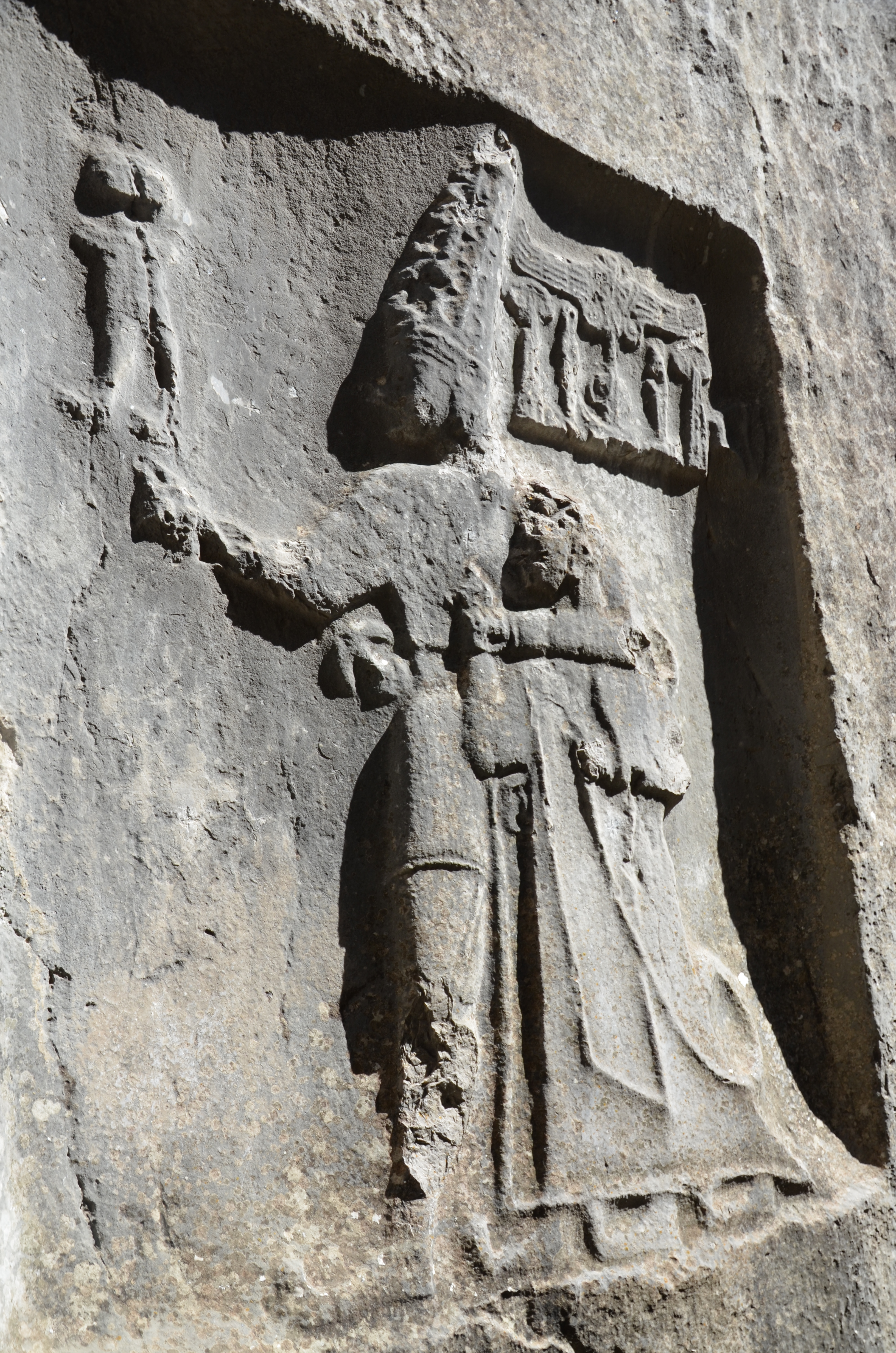 East wall of Chamber B depicting in a niche the God Sharruma (son of the Thunder God Teshub) embracing King Tudhaliya IV, Yazılıkaya, the Hittite sanctuary of Hattusa, Turkey